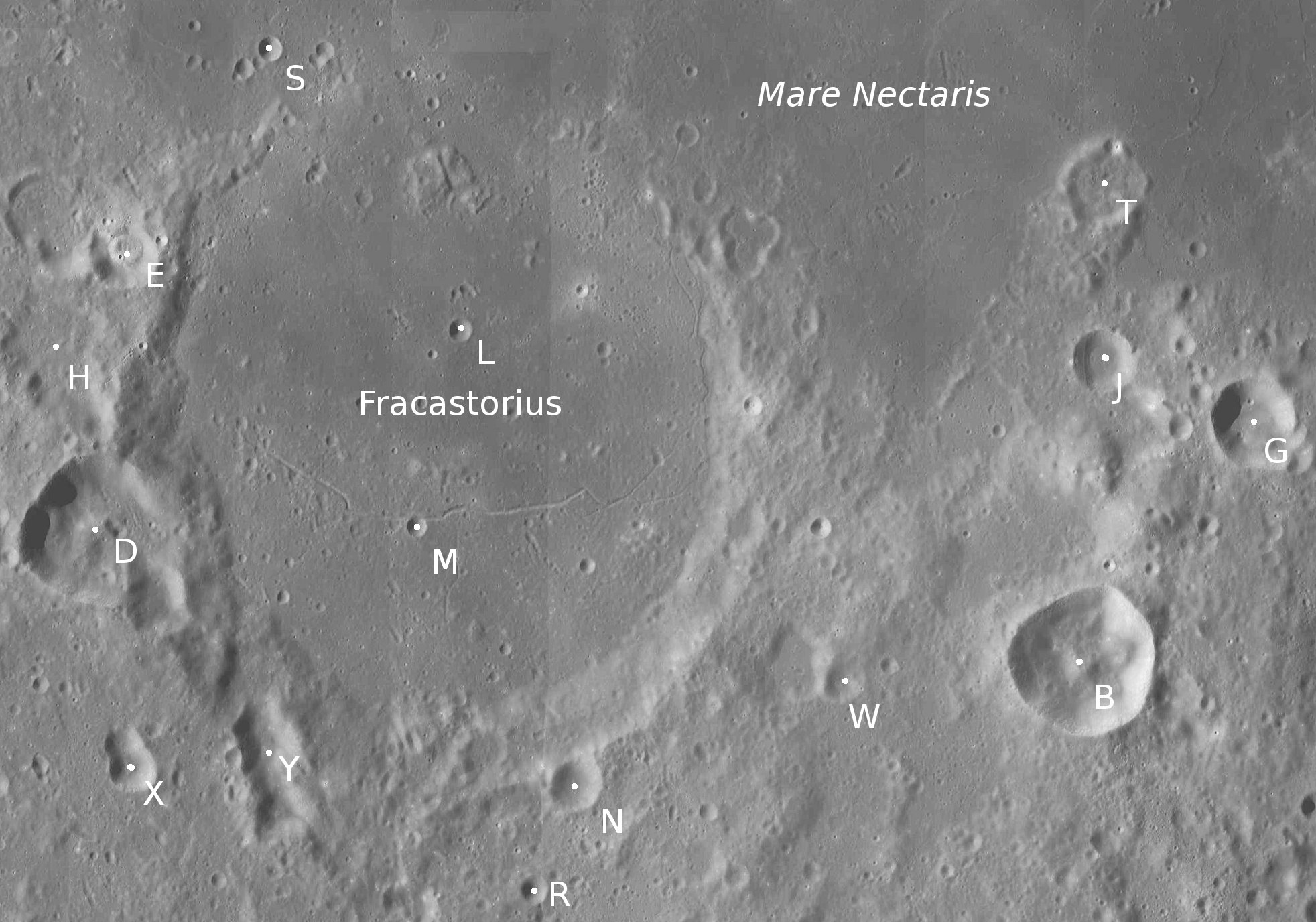 Crater Fracastorius and satellite features (detail of LRO - WAC global moon mosaic; Mercator projection)